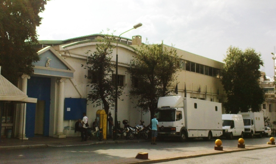 Panellinios indor court